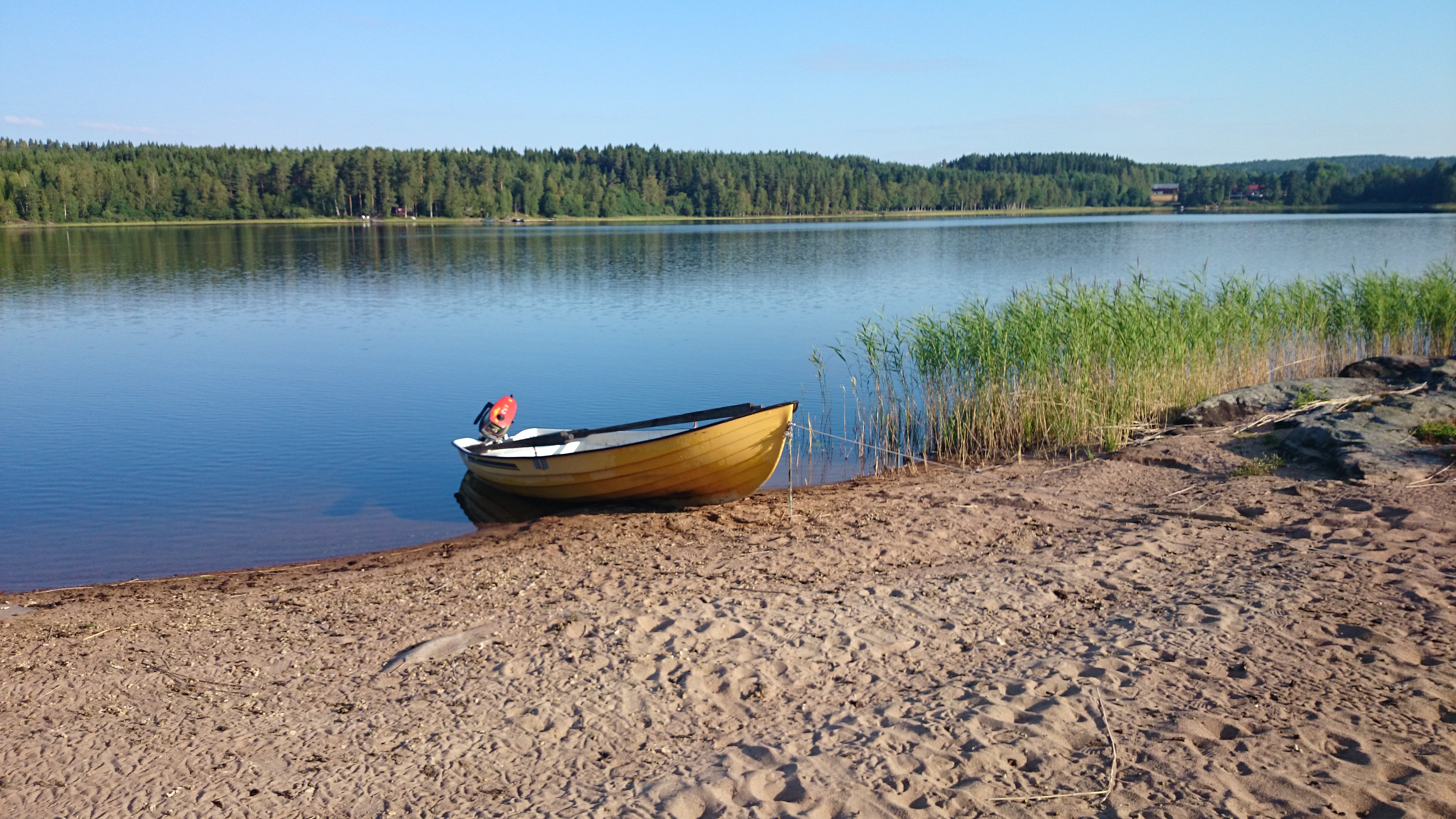 Lake Bysjön in Sweden, summer 2014